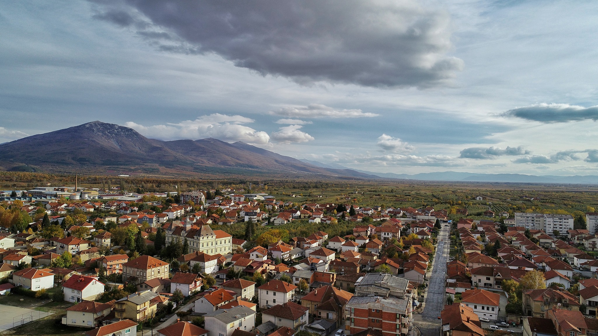 Panoramic view of Resen.